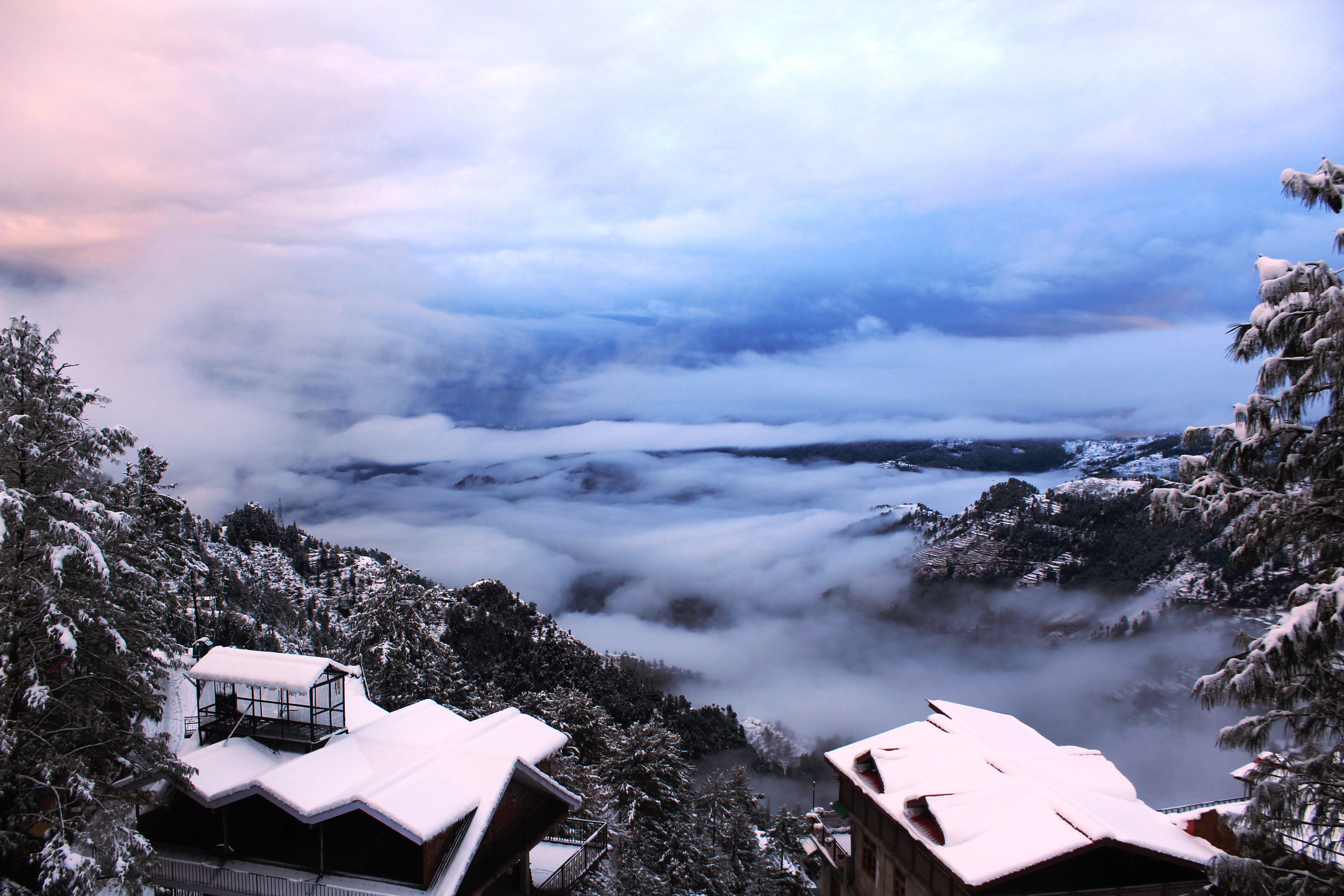 Theog in Winters